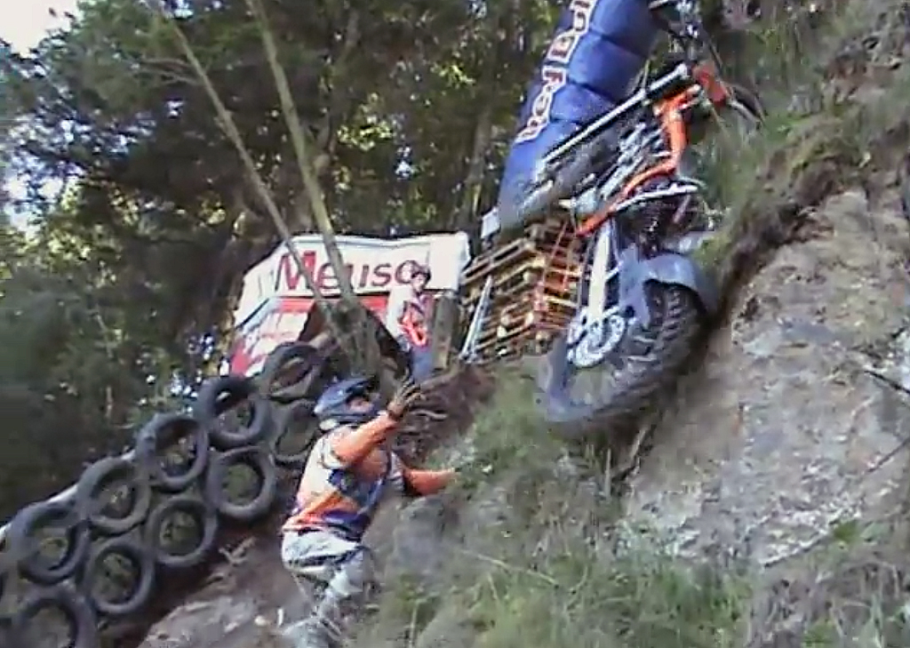 соревнования по Хилклимбингу в Бельгии в 2010 году